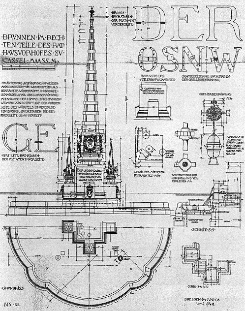 Construction plan for the Aschrott fountain by architect Karl Roth